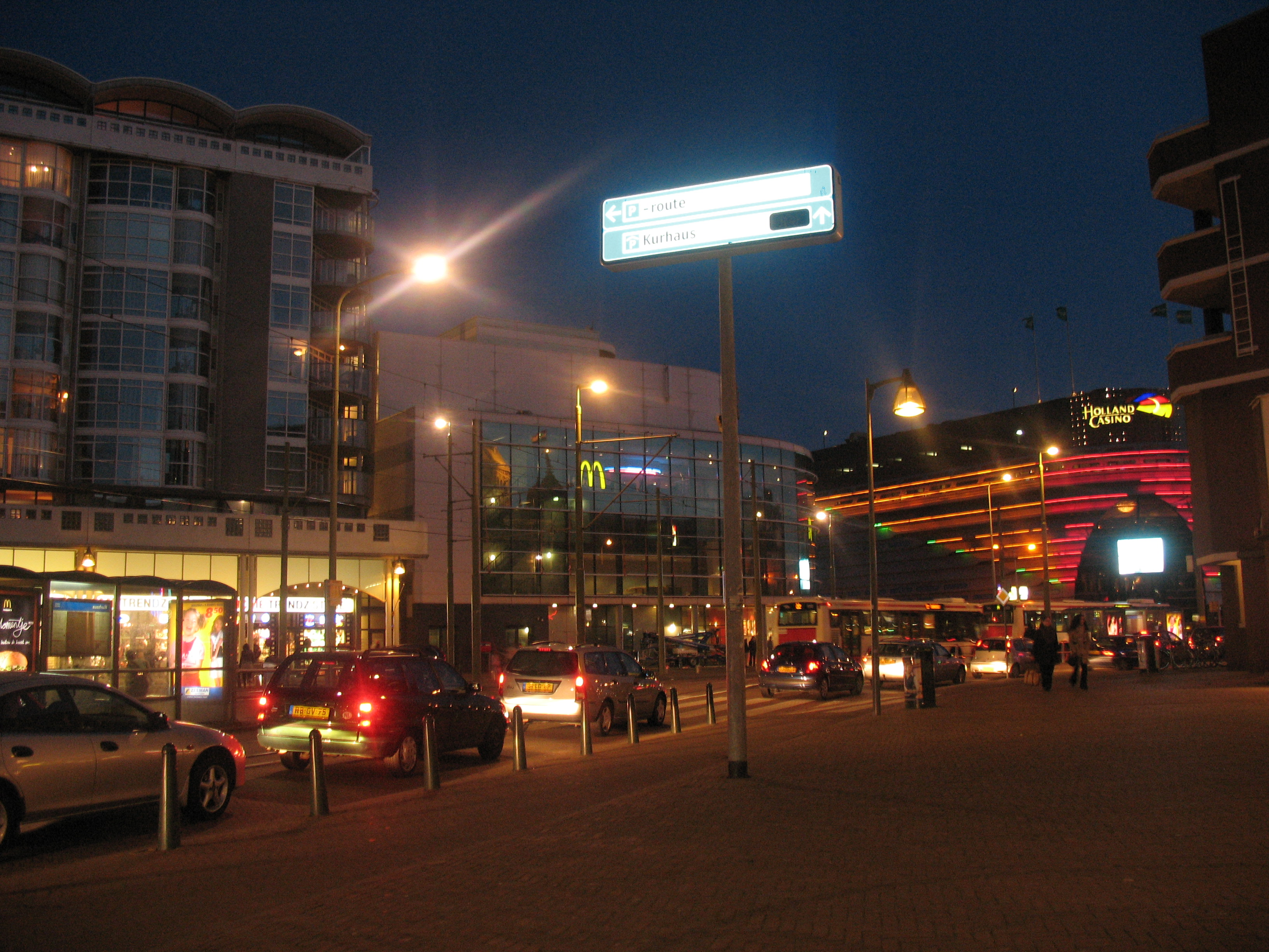 Scheveningen in night